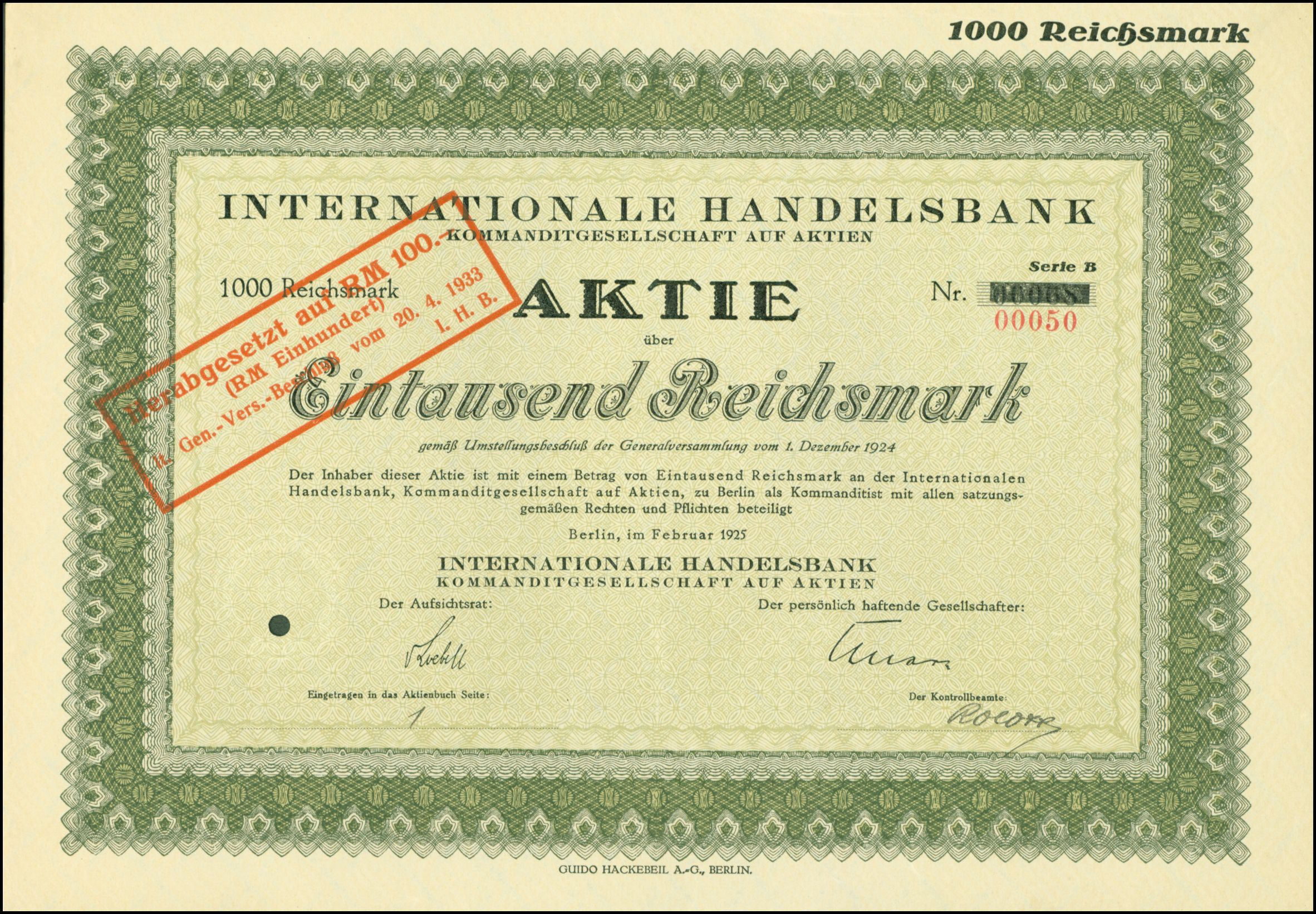 Share of the Internationale Handelsbank KGaA, issued February 1925